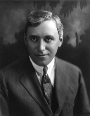 This image of Mr Sennett was published before 1923. Taken 1910.